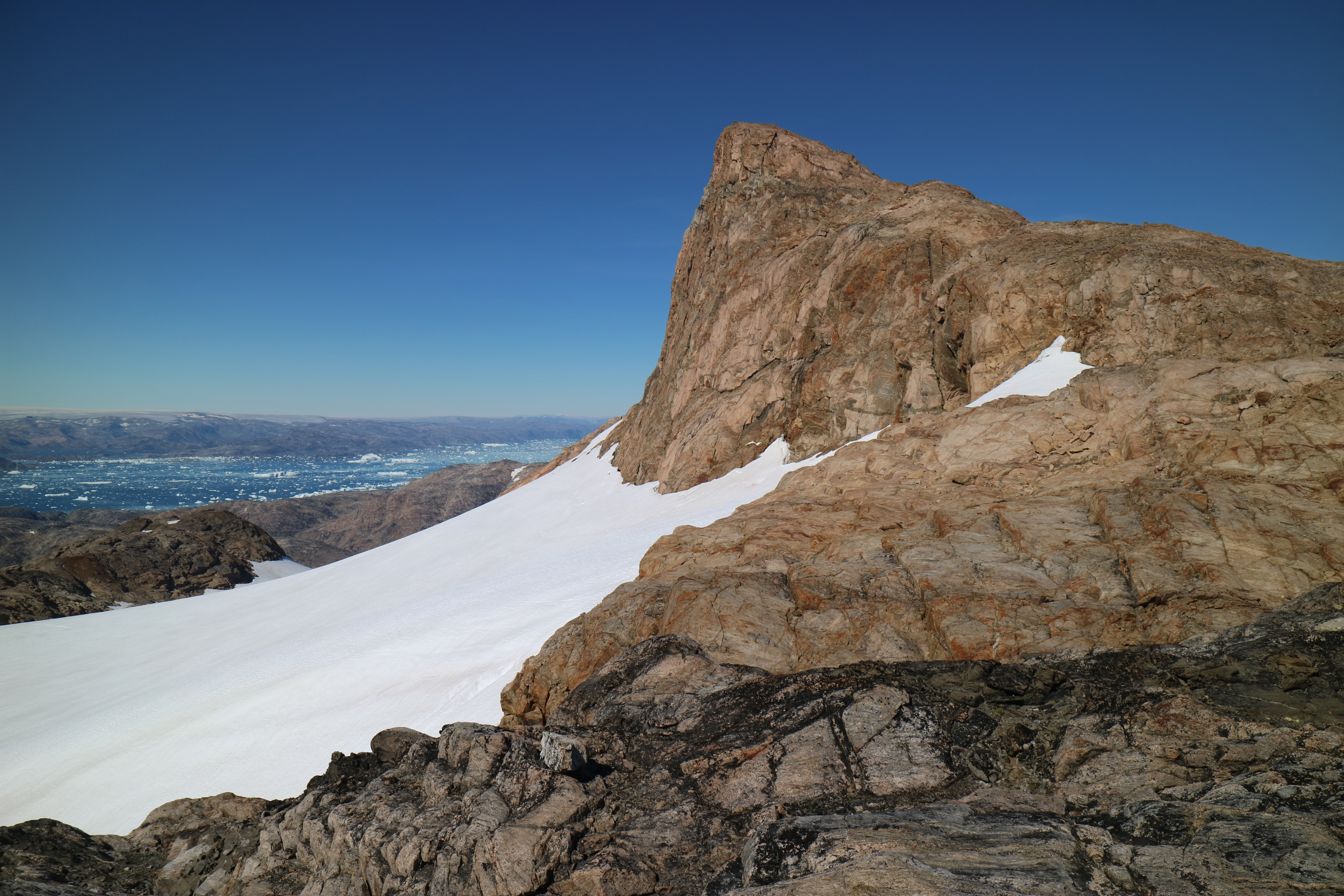 Mittivakkat nunatak seen from the South